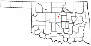 Locator map of Guthrie — in Logan County, Oklahoma.